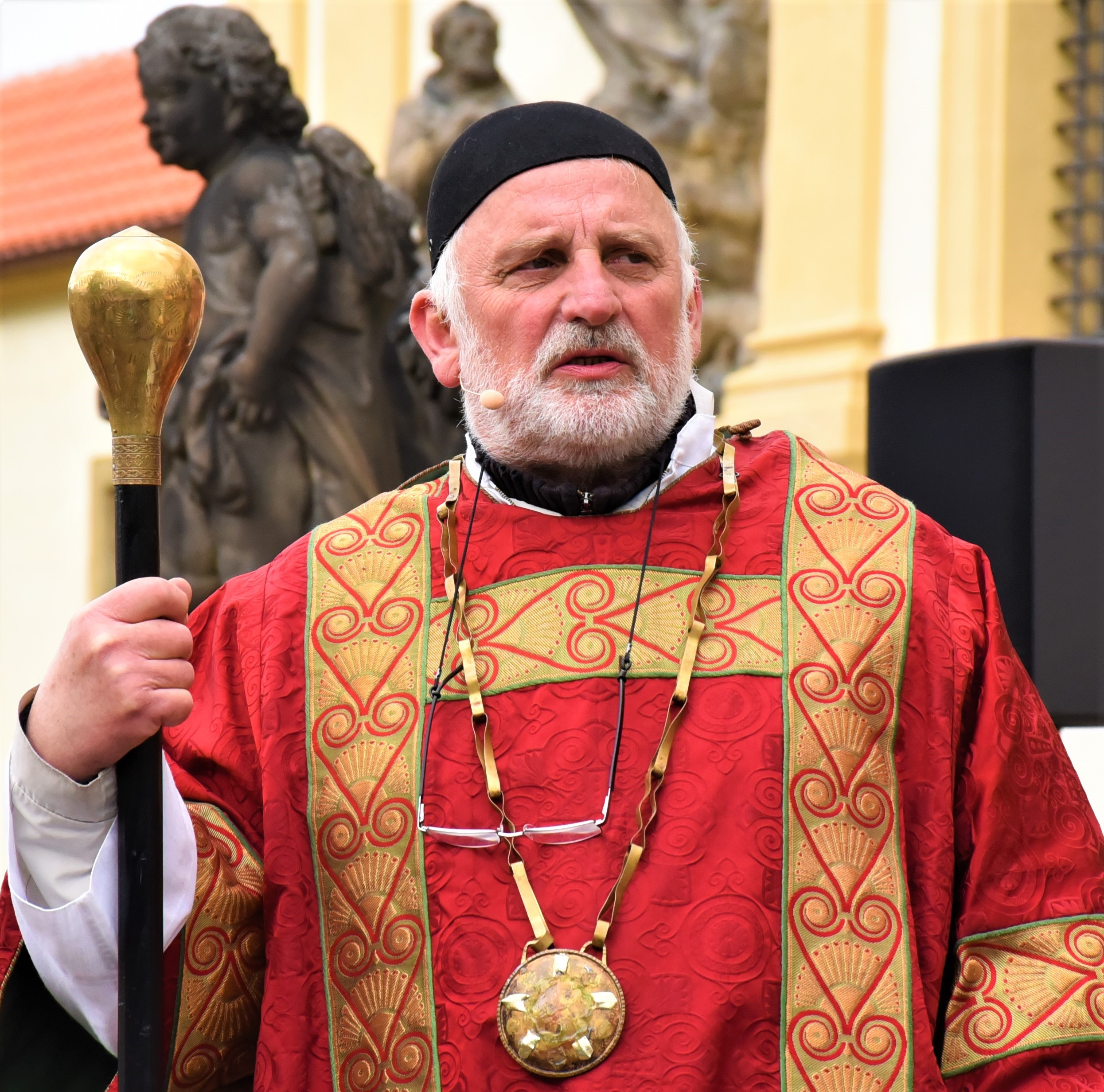 Miloslav Mejzlík, Czech actor